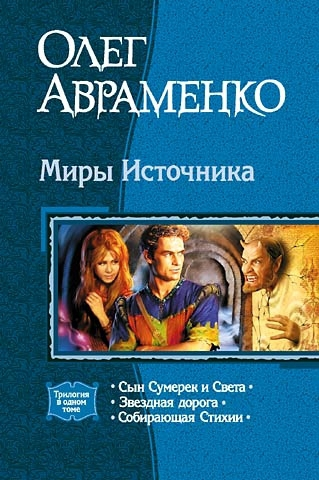 Обкладинка книги "Міри Істочніка" О.Авраменко